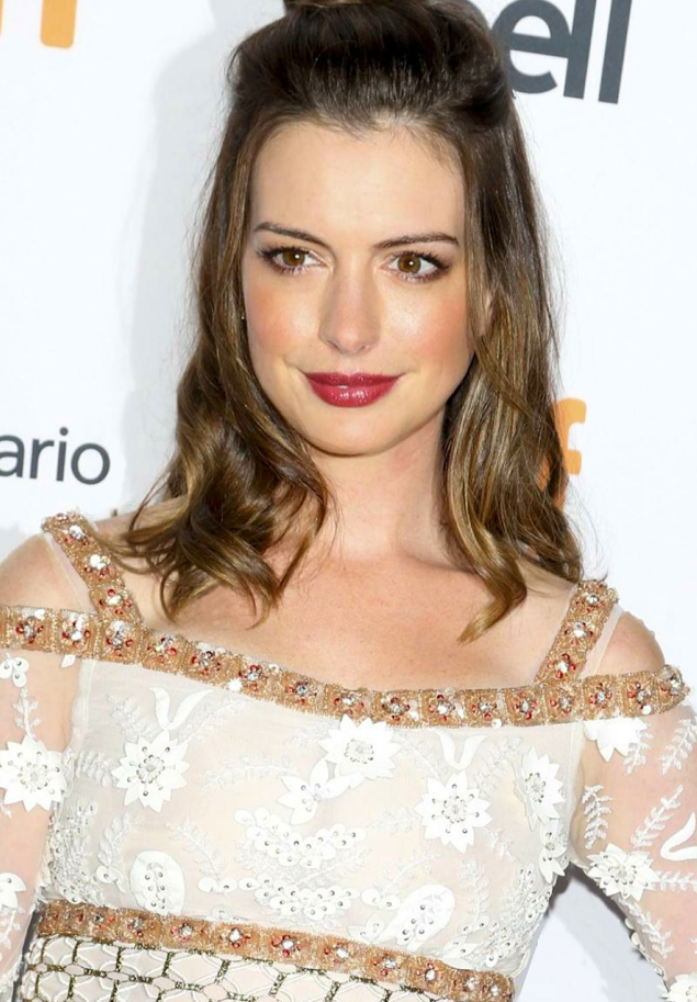 Saw actress Anne Hathaway at Toronto International Film Festival on September 9, 2016, 350 Victoria St, Toronto, ON. Photo taken by Franci DB (Frances Du Bois)